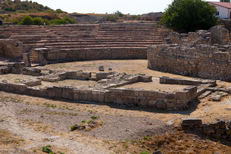 Amphitheater of Khersones